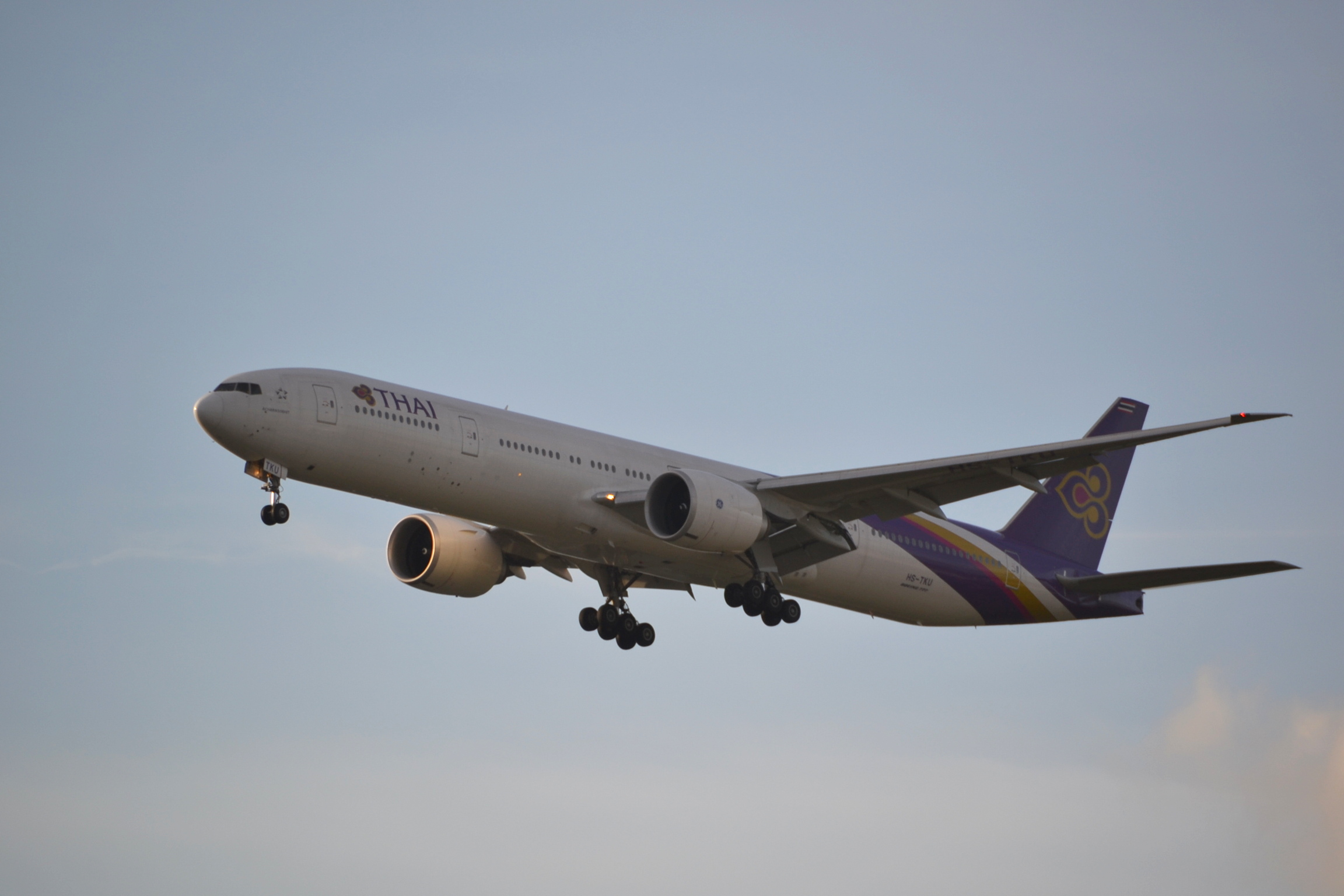 Boeing 777/3 of Thai Airways International on final approach to rwy. 19R at Bangkok-BKK, 08/09/15.